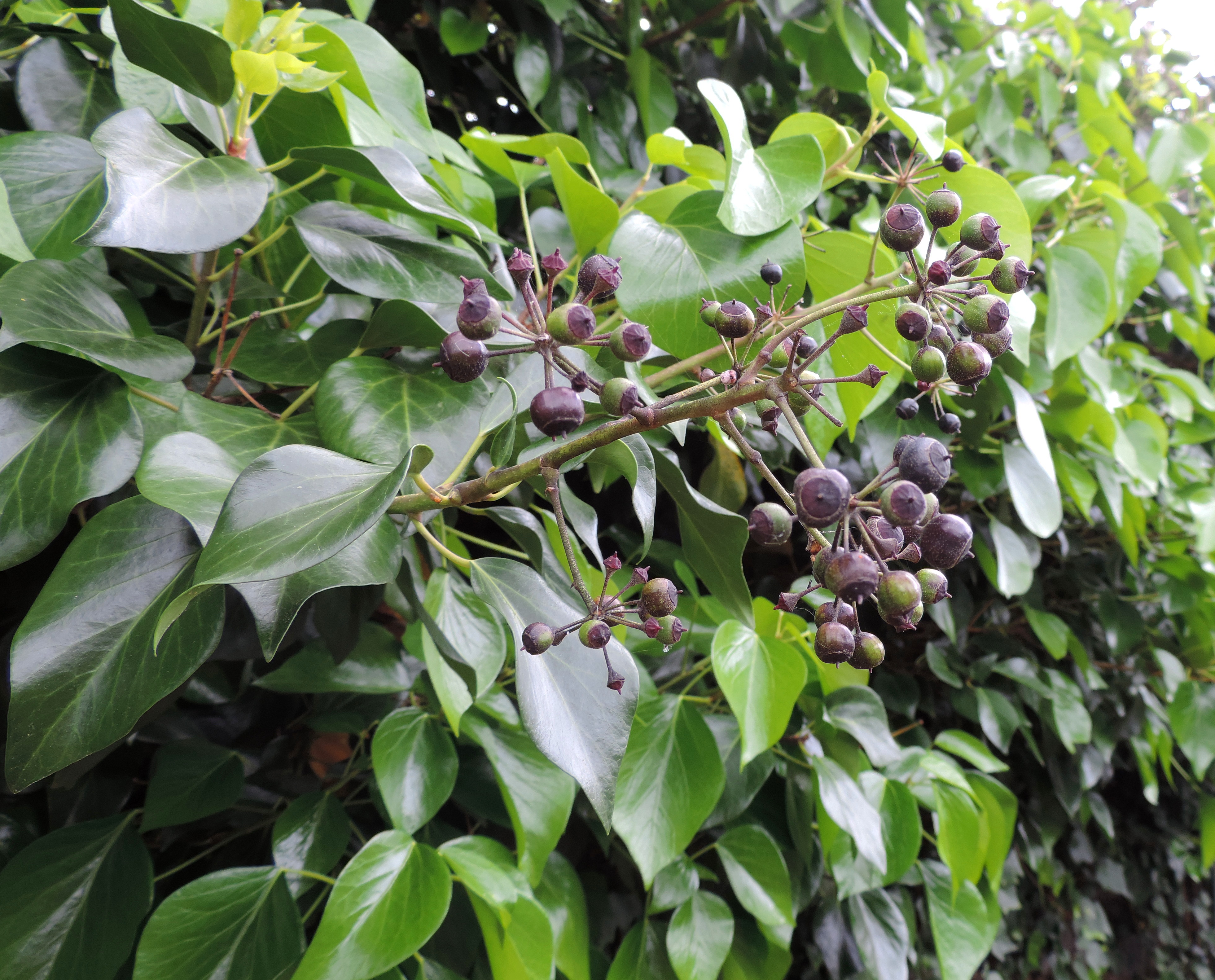 Hedera canariensis in Jardín Botánico Canario Viera y Clavijo